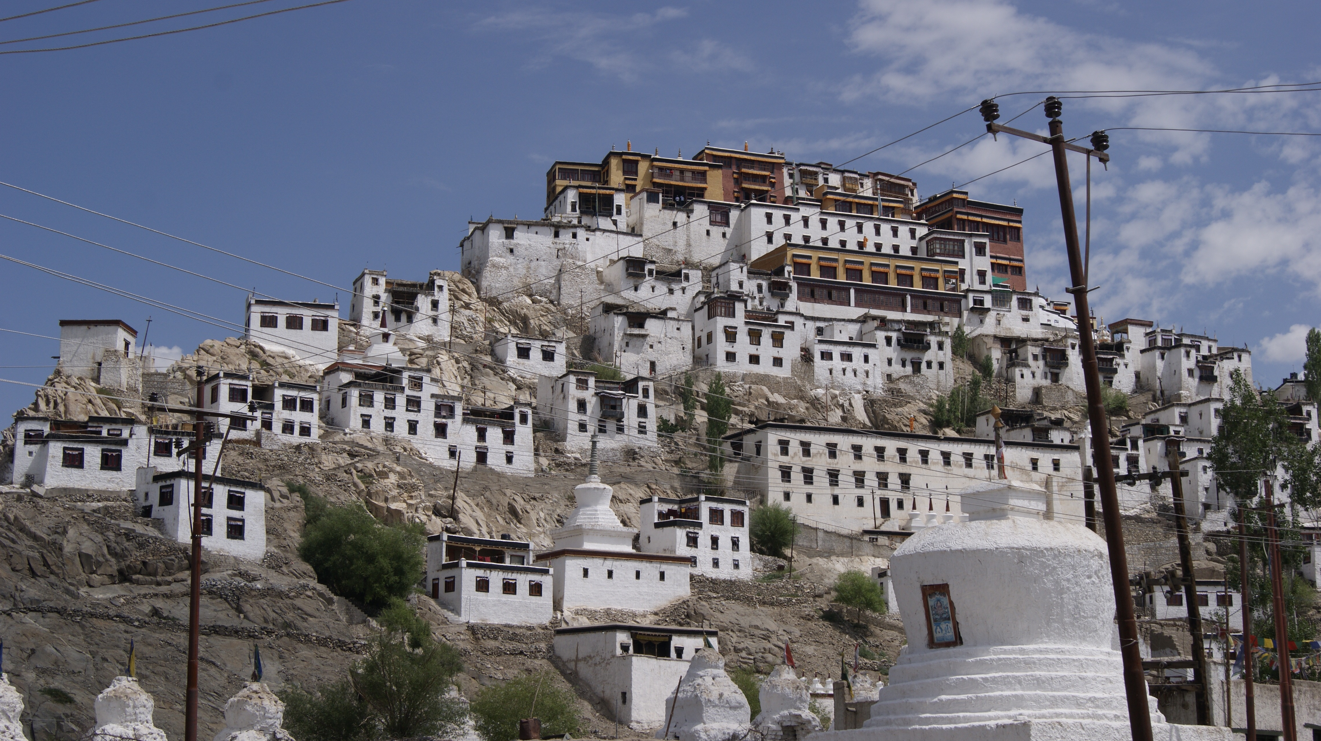 View of the front of Thikse Monastery